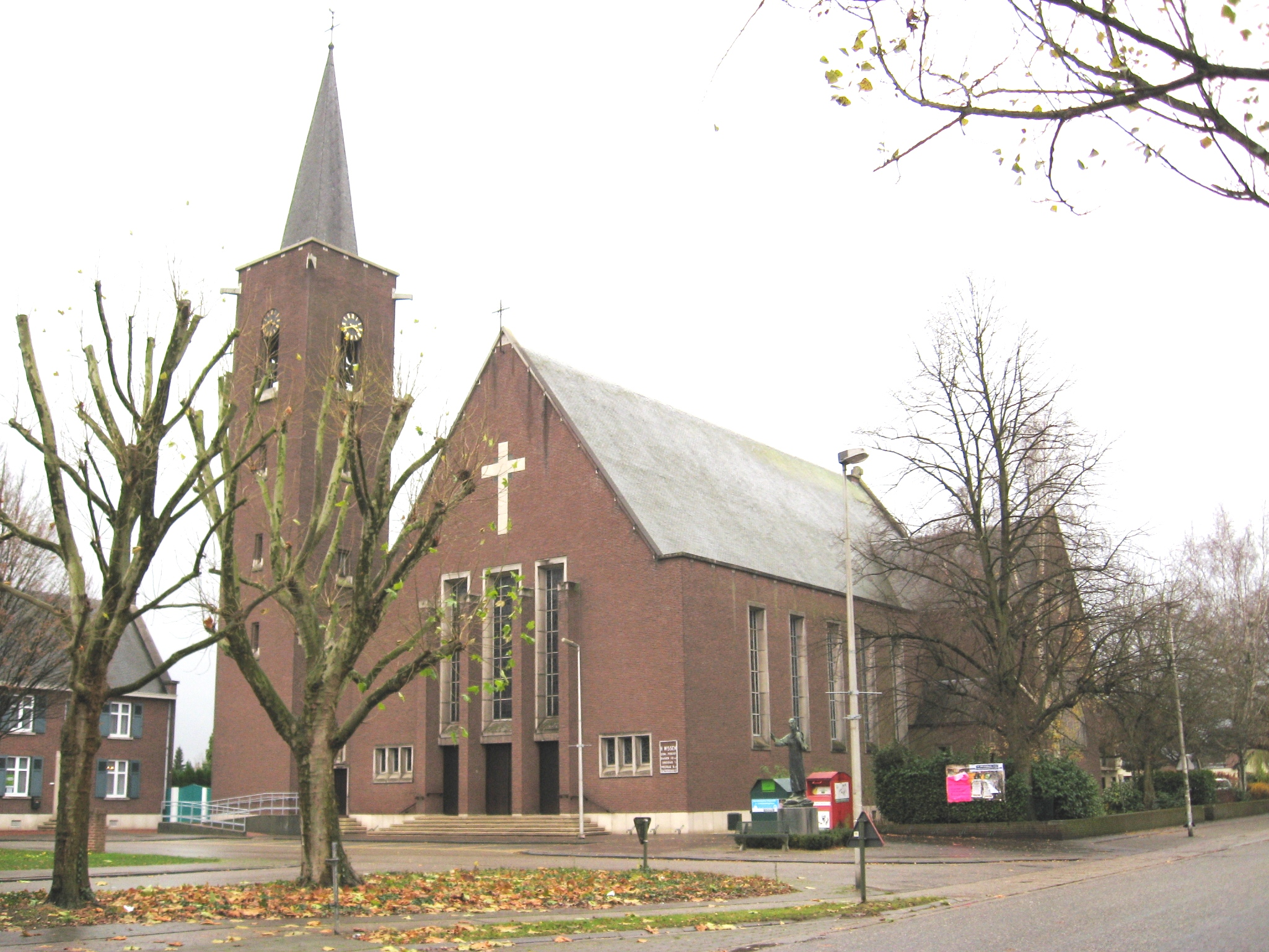 Church of Saint Peter in Rekem, Lanaken, Limburg, Belgium